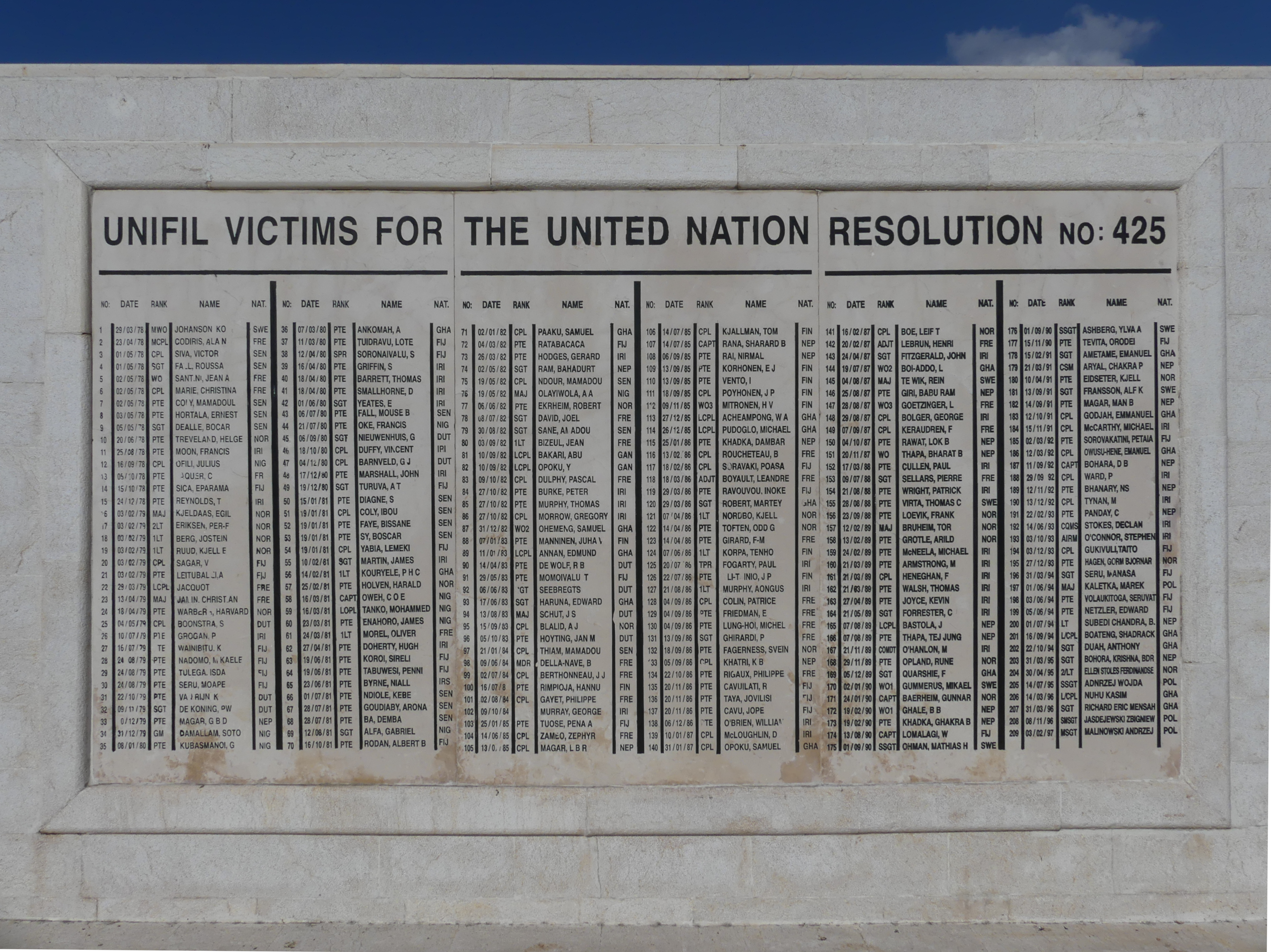 Unfinished memorial for UNIFIL casualties with an incomplete list of 209 names up to February 1997, at the roundabout of "Rue president Nabih Birri" and Dr. Ali El Khalil Street in Tyre, Southern Lebanon in August 2019